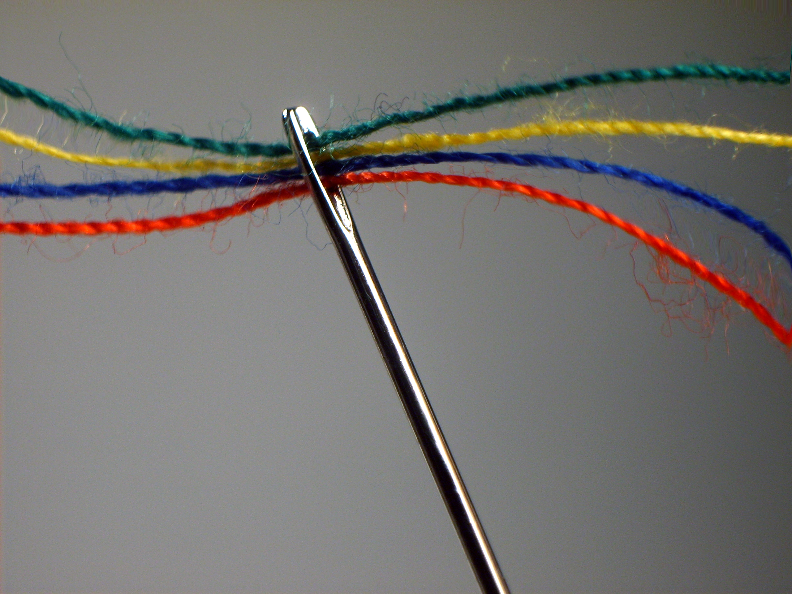 A threaded needle.